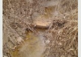 Paint Creek of Washtenaw County, Michigan, United States, south of Ellsworth Road in Pittsfield Charter Township, Michigan, United States.